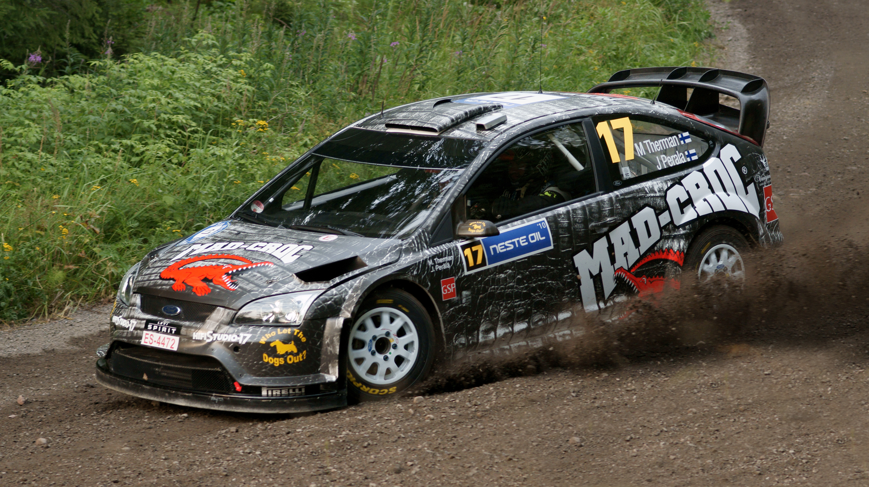 Mattias Therman driving at Laajavuori special stage, Rally Finland 2010.